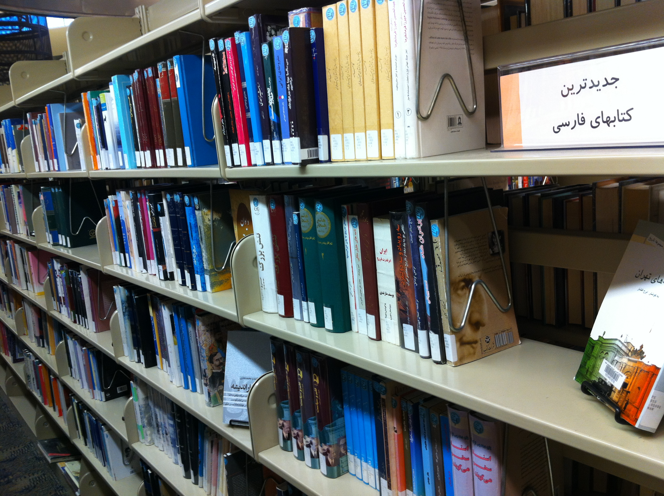 Fresno County Public Library. Woodward Park branch.